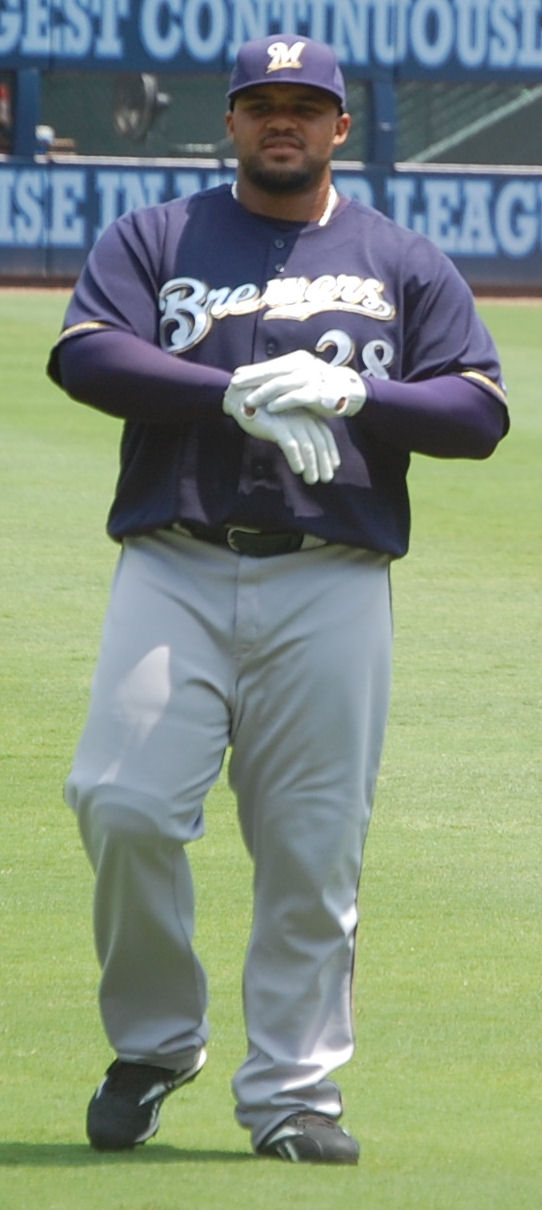 Prince Fielder doing pre-game stretches in Turner Field